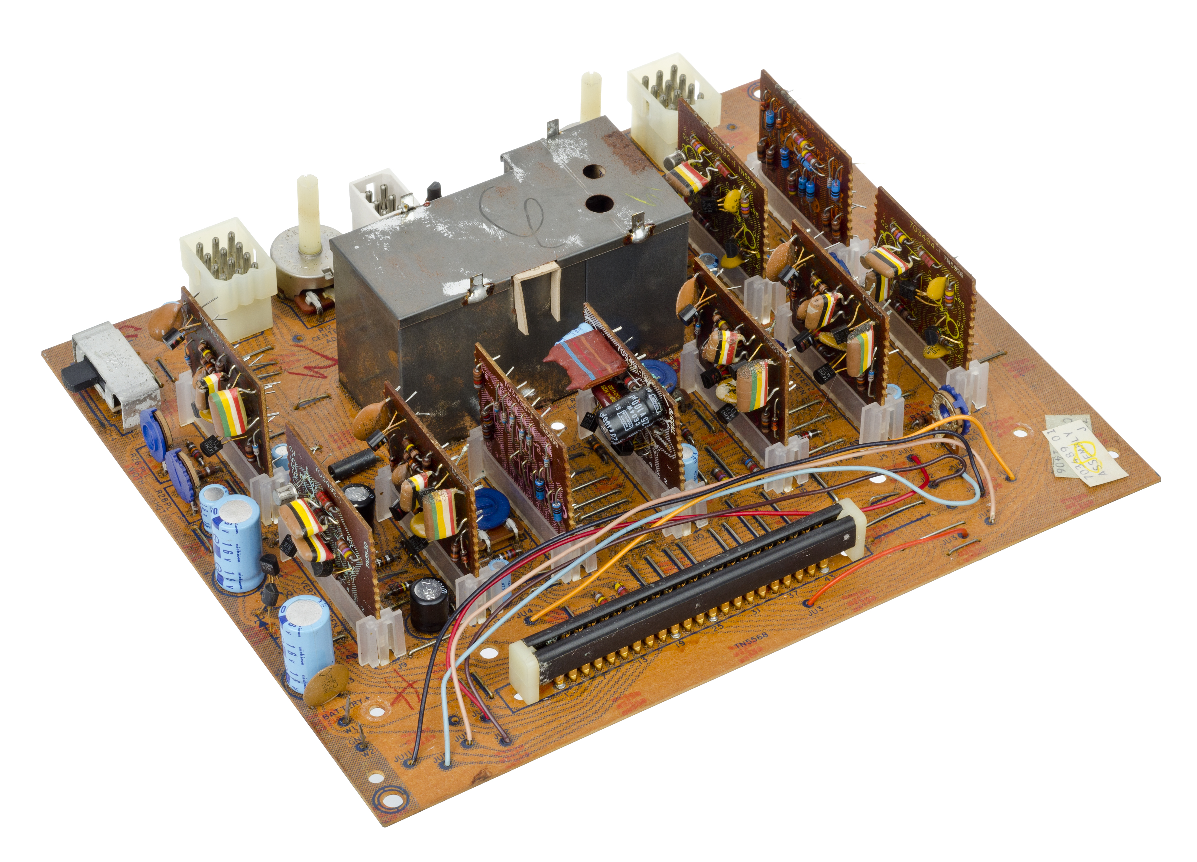 The motherboard for the Magnavox Odyssey, the very first video game console. Released in 1972, the Odyssey was a simple and crude device that generated shapes on the television that could be controlled and interacted with. It only produced black and white graphics and had no sound, but was limited to only using discreet components like diodes and transistors. It was replaced in 1975 with the Magnavox Odyssey series, a line of dedicated Pong consoles.